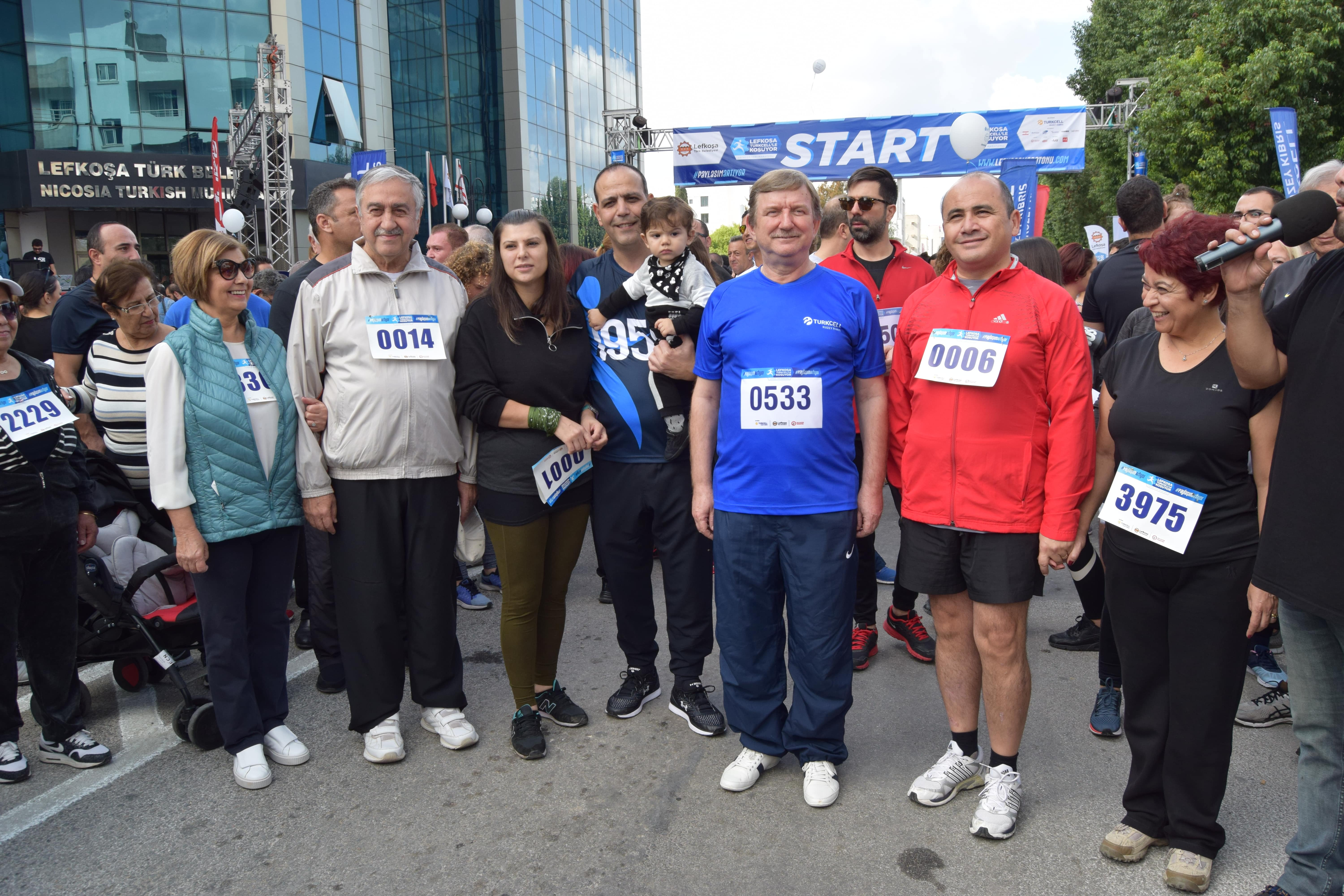 2018 Nicosia Marathon, Mustafa and Meral Akıncı, Mehmet Harmancı